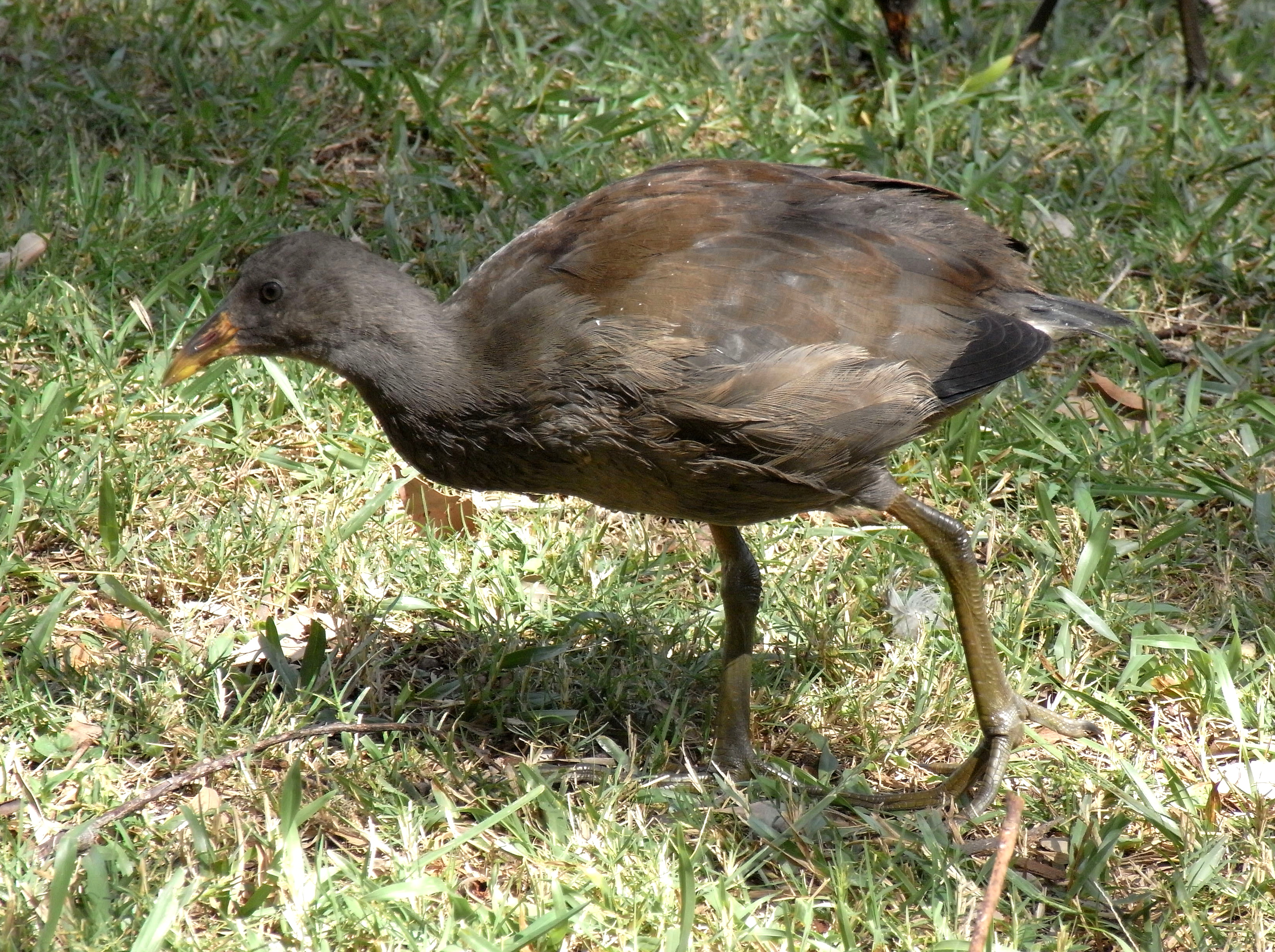 Young Dusky Moorhen (Gallinula tenebrosa) near Audley, Royal National Park, New South Wales, Australia.